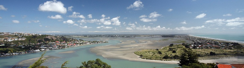 A panorama of Christchurch - Avon Heathcote Estuary.